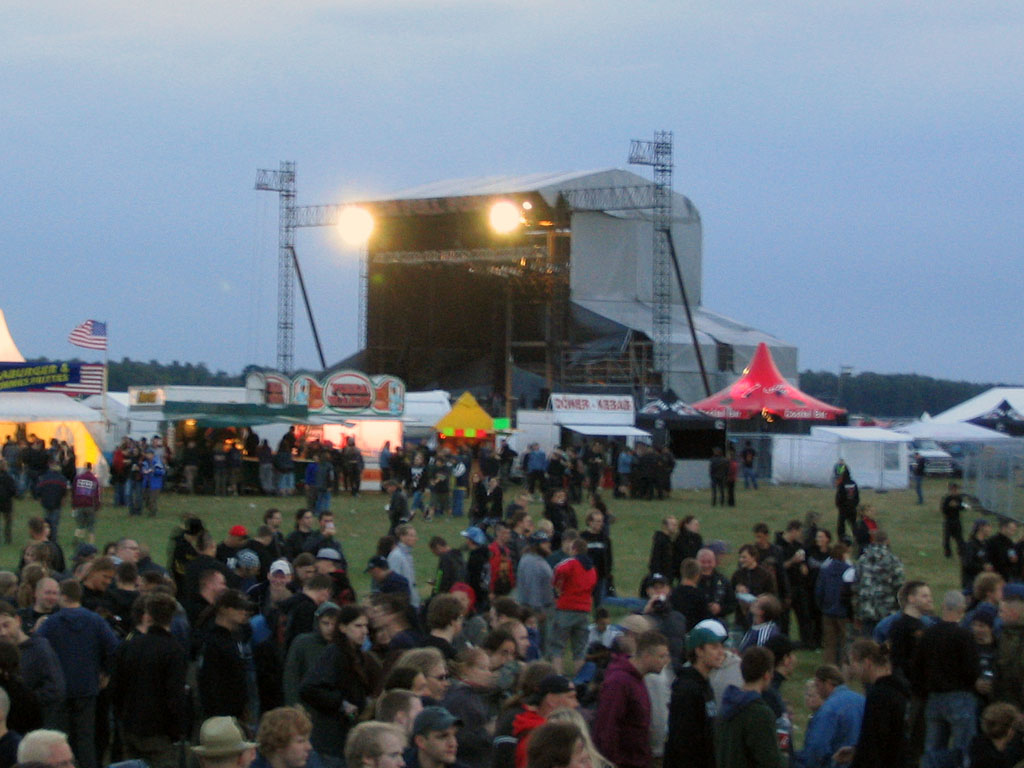 WithFullForce Festival Germany - view of mainStage